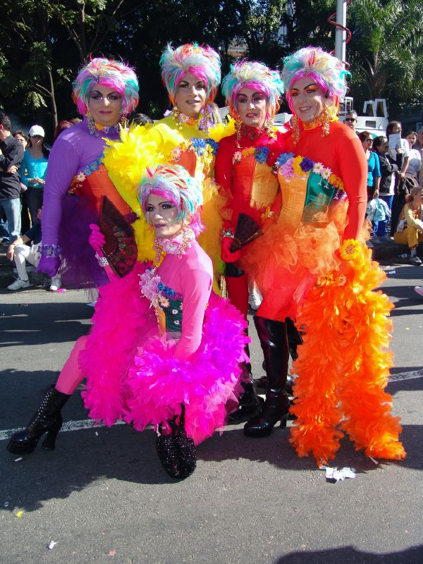 Colorfull Group on the Gay Pride 2005 in Sao Paulo, Brazil